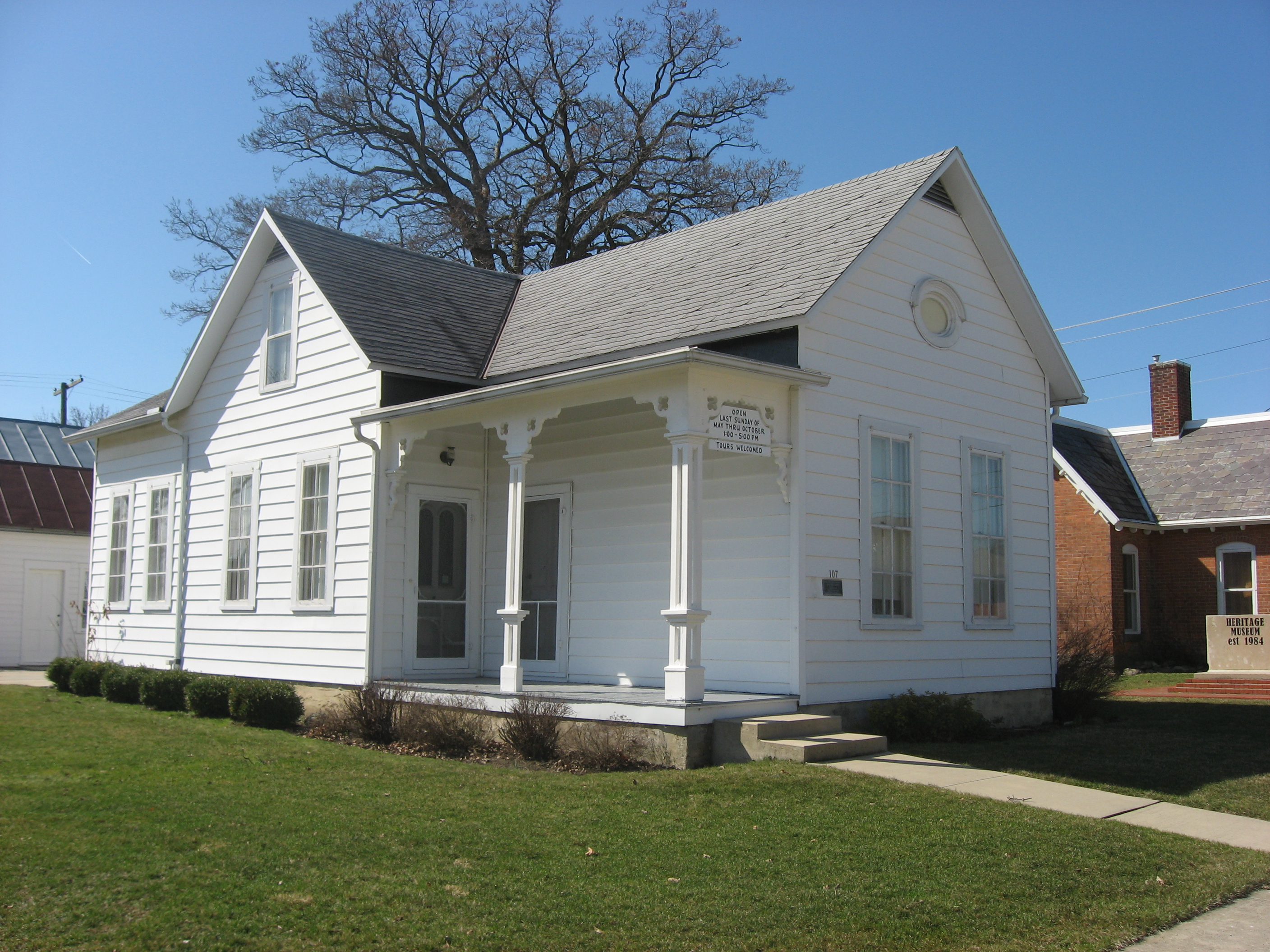 Front and side of the H.E. Fledderjohann House, located at 107 E. German Street in New Knoxville, Ohio, United States. Built in 1879 and today the home of the local historical society, it is listed on the National Register of Historic Places.